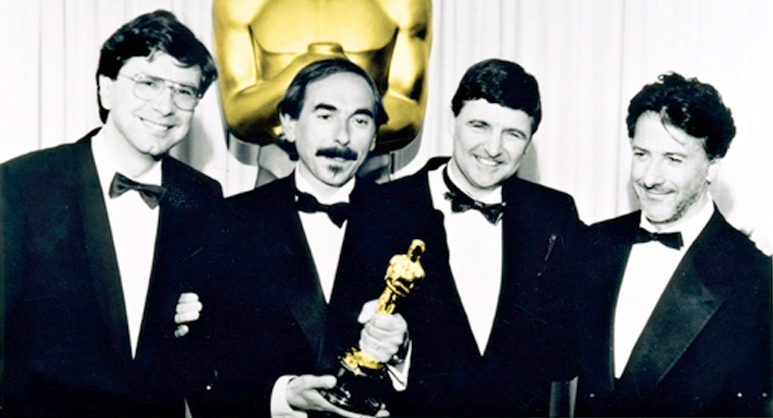 Crew of Swiss film "Journey of Hope" (original title : "Reise der Hoffnung"), produced by Condor Films, winner of the 1991 Academy Award for Best Foreign Language Film. On the right, Dustin Hoffman, who presented the award. Holding the statuette : Xavier Koller, director of the movie. The two other men are the producers of the movie : Alfi Sinniger (on the left) and Peter-Christian Fueter (between Koller and Hoffman).